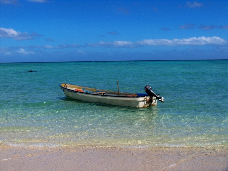 Kwassa Kwassa